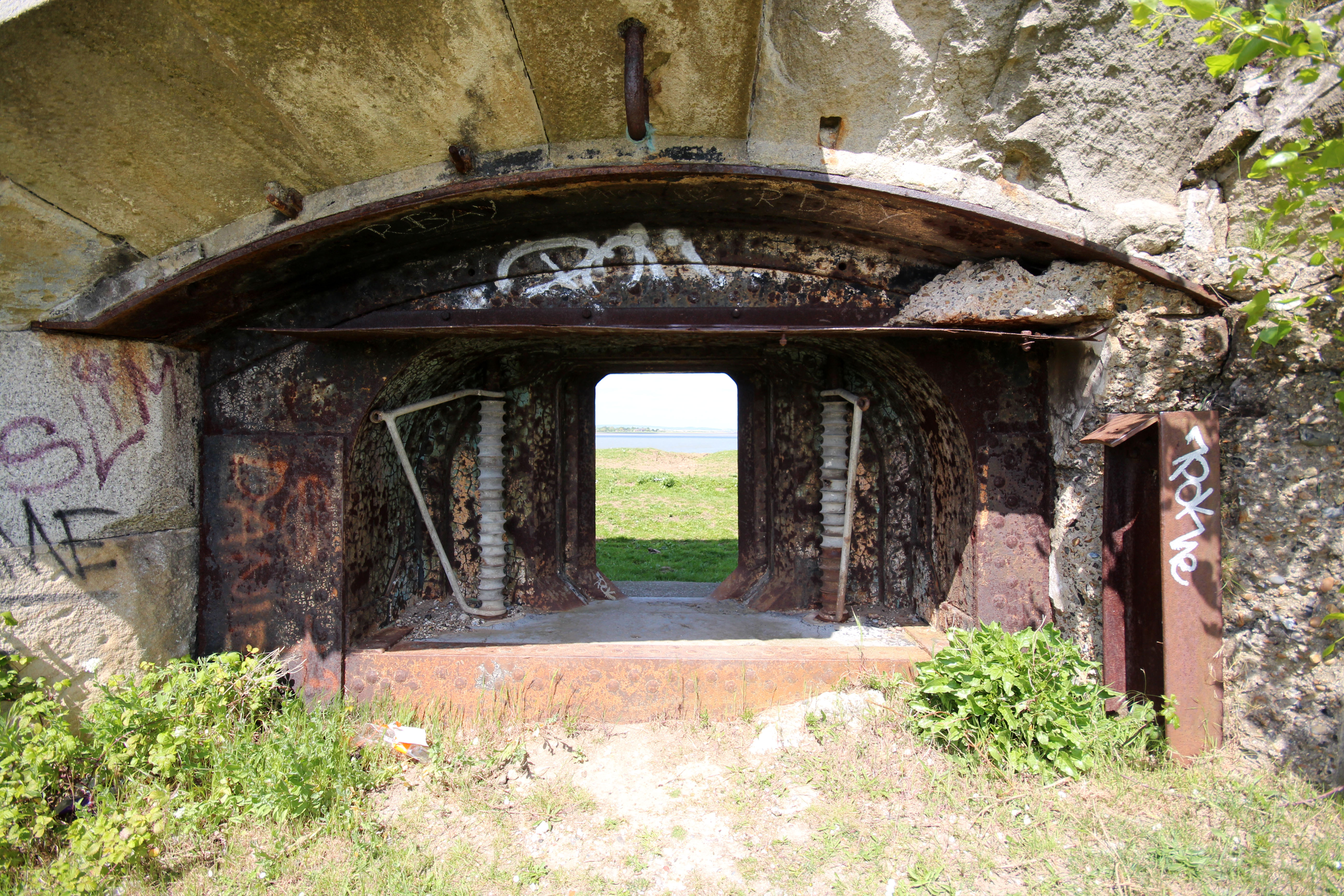 Interior view of Shornemead Fort casemate